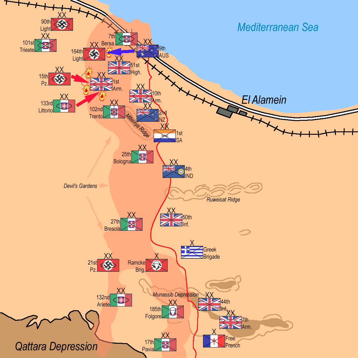 Second Battle of El Alamein: 1st Armoured Division is counteattacked by Littorio Armoured Division and 15th Panzer Division. 1st Armoured Division and 51st Highland Division break off their attack: 3:30pm- October 25th, 1942. 7th Armoured Division breaks off its attack on Folgore Parachutist Division. 9th Australian Division attacks 164th Light Division: 9:30pm- October 25th, 1942.